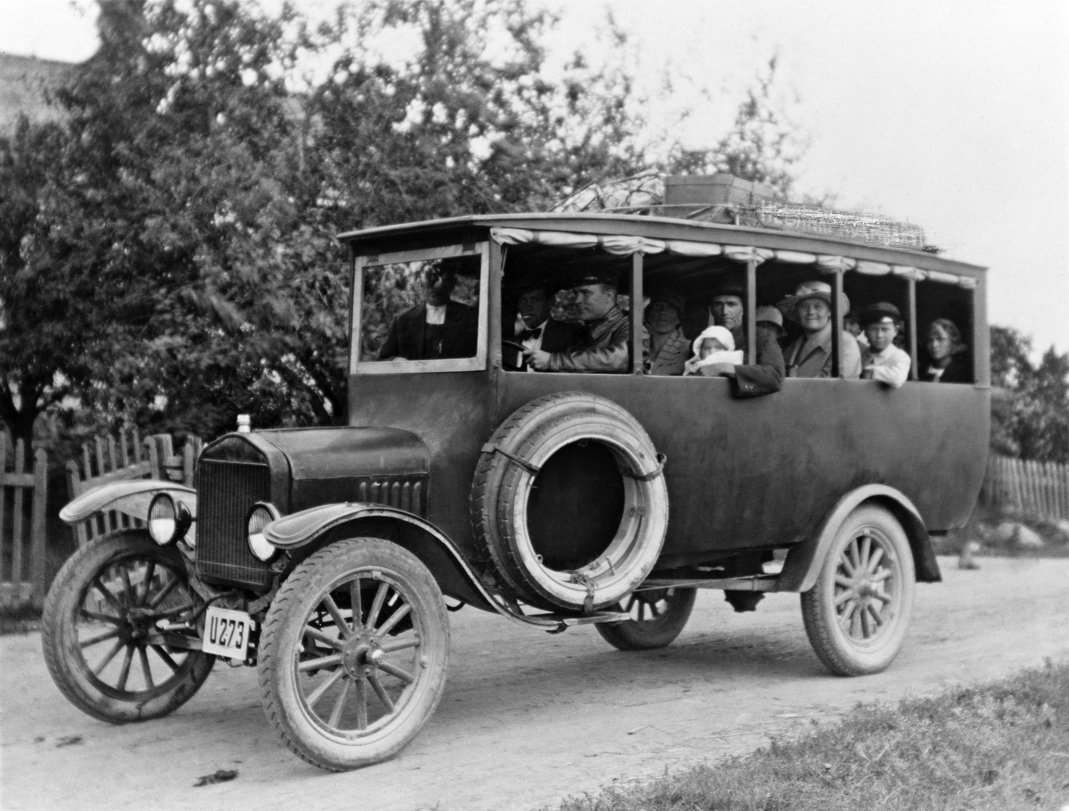 Bus for the Helsinki-Nurmijärvi bus line in Helsinki, Finland in the 1920s.